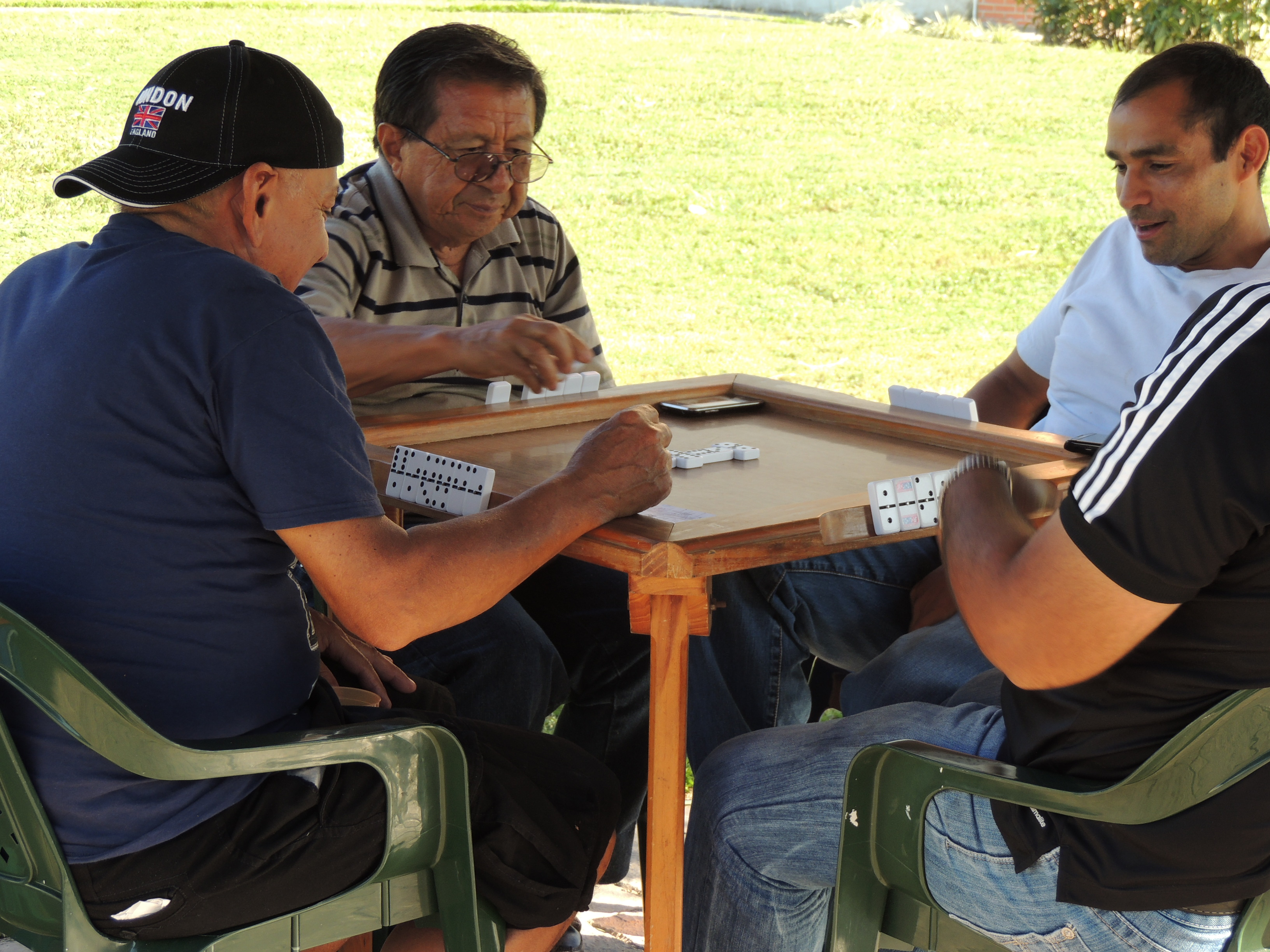 People playing domino